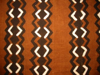 I took the picture myself. Mud Cloth is handmade here in Mali using natural ingredients - including mud. Mud cloth and mud cloth products are becoming popular.